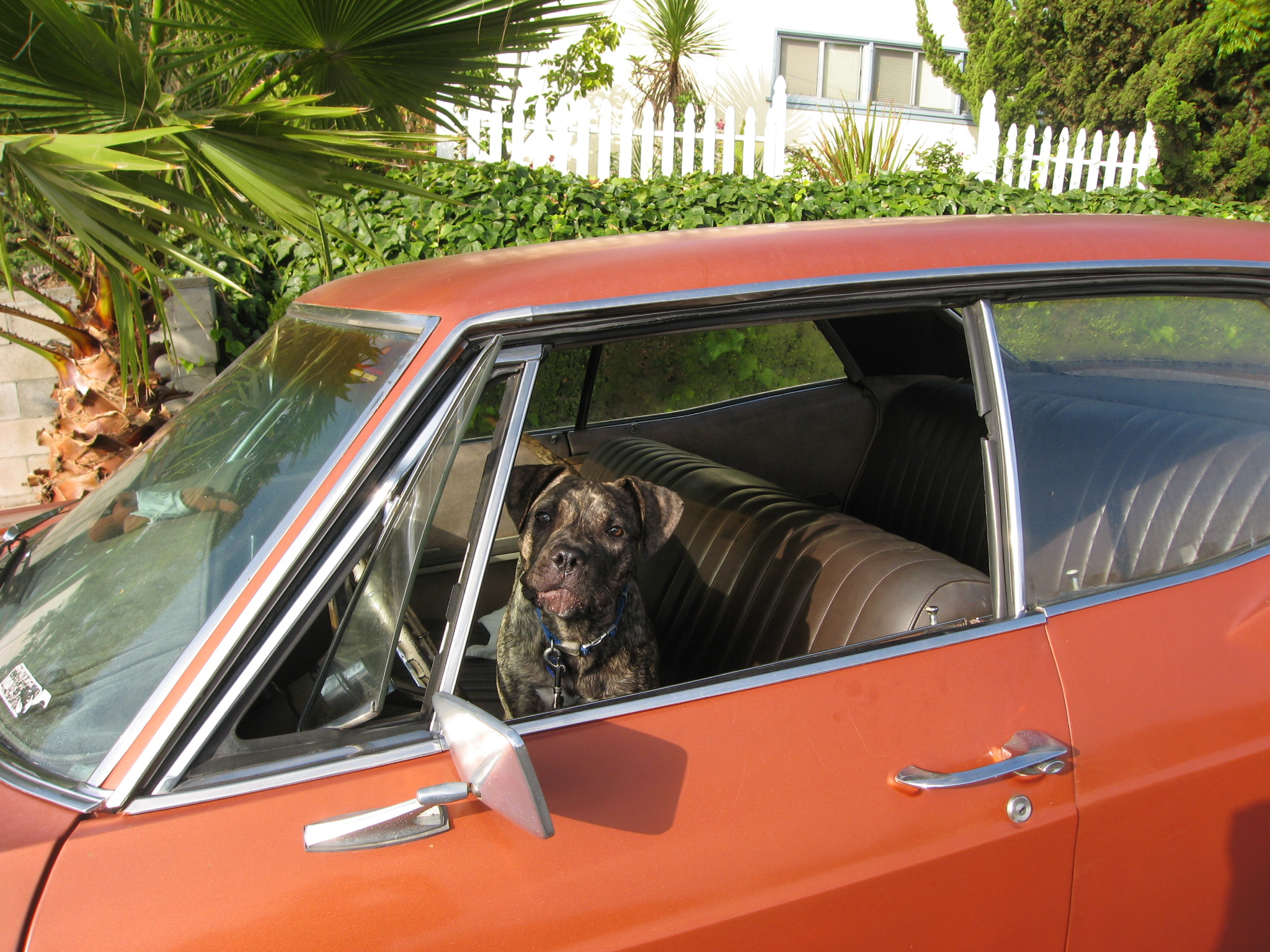 Six-month-old Mastiff mix in 1965 Chevrolet Impala